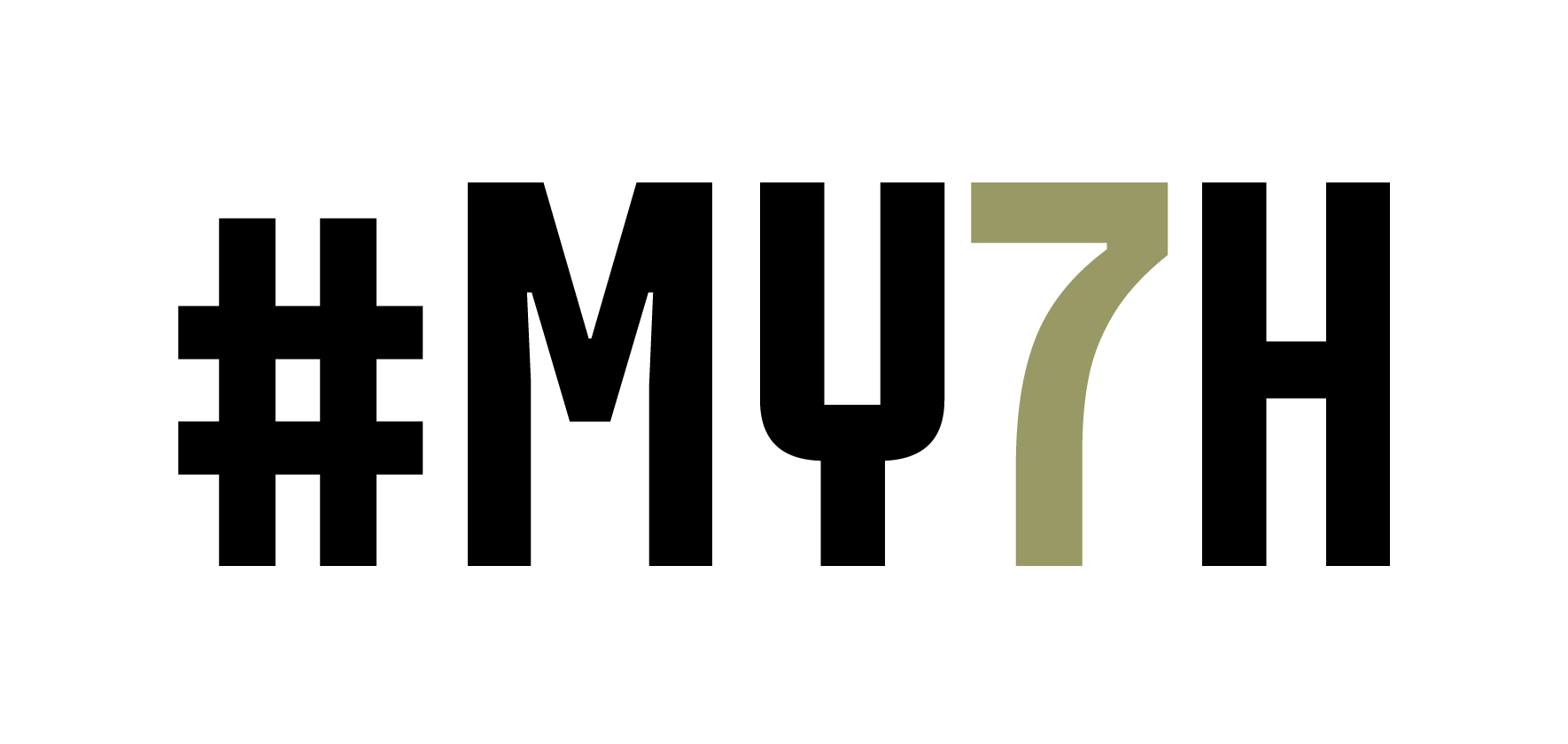 Hashtag #MY7H for the 7th Italian Serie A title won in-a-row by Juventus F.C. in the 2017–18 season.